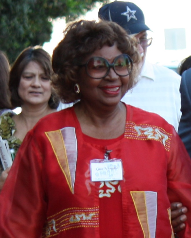 Hamilton at The Waltons 40th Anniversary in 2012